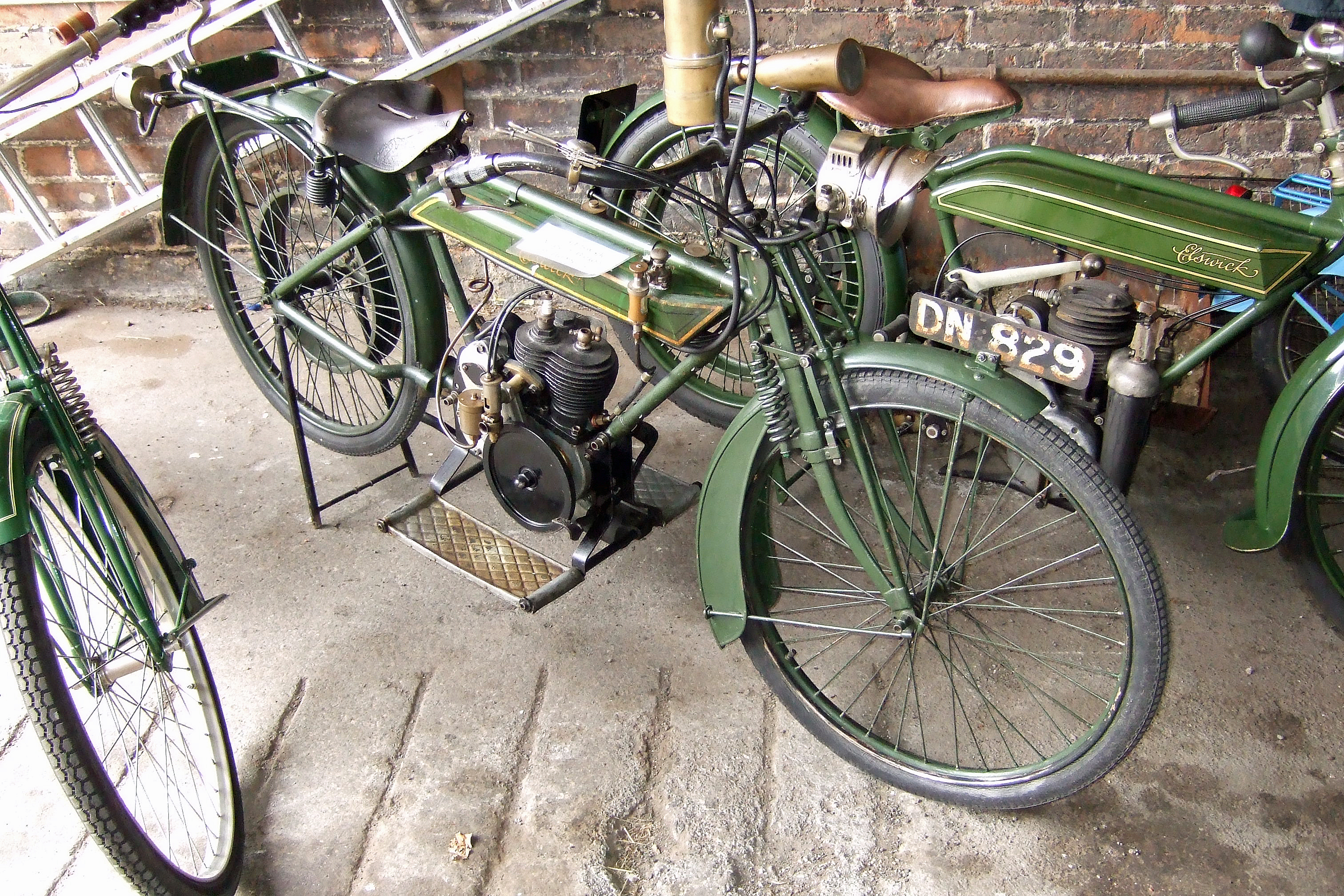 Elswick Hopper Motor Cycle of 1914 vintage manufactured in Barton Upon Humber